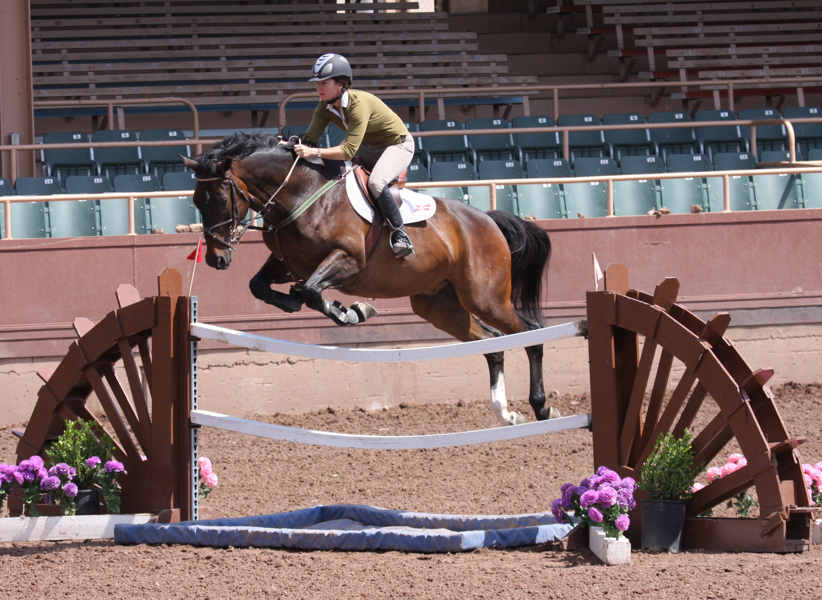 Argentinian Warmblood